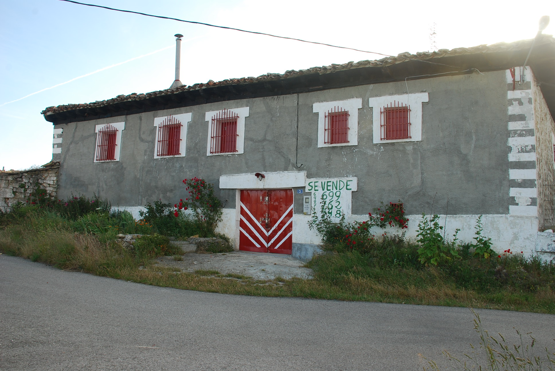 Villalta, Páramo de Masa (Province of Burgos, Castile and León).